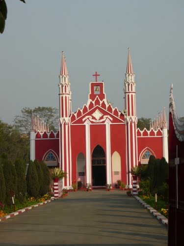 Mathodist church at bareilly